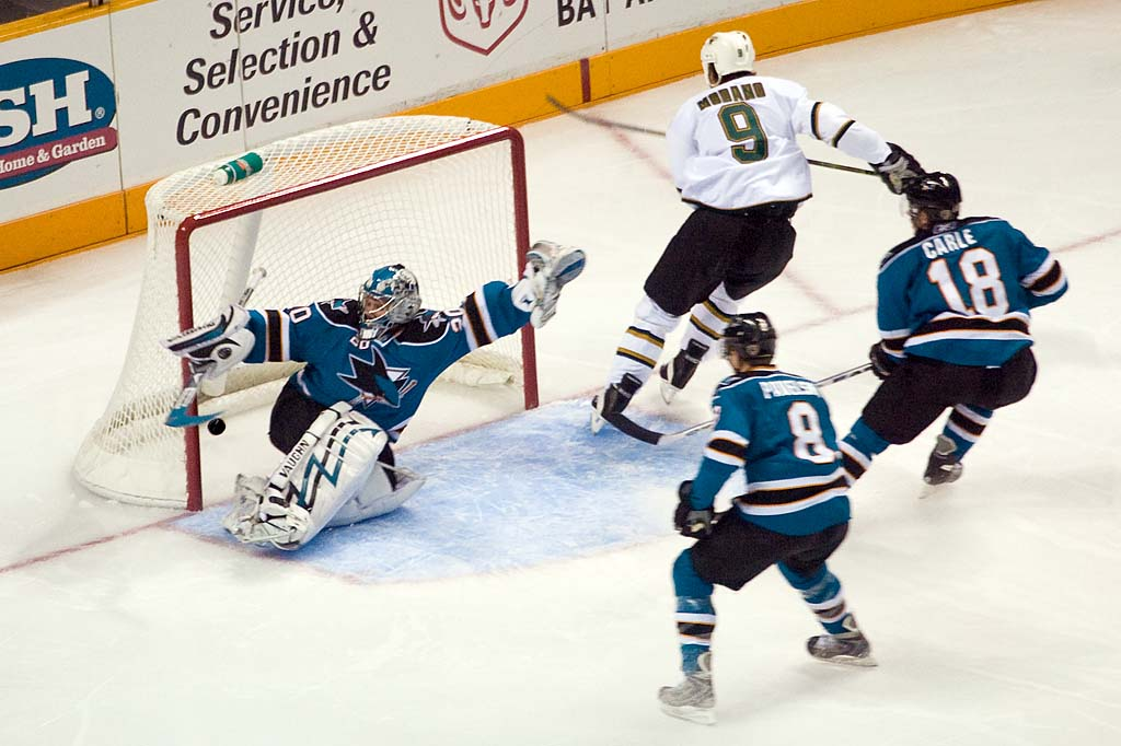 Mike Modano breaks Phil Housley's career record for points by a U.S.-born player on November 7th, 2007 Dallas Stars vs. San Jose Sharks